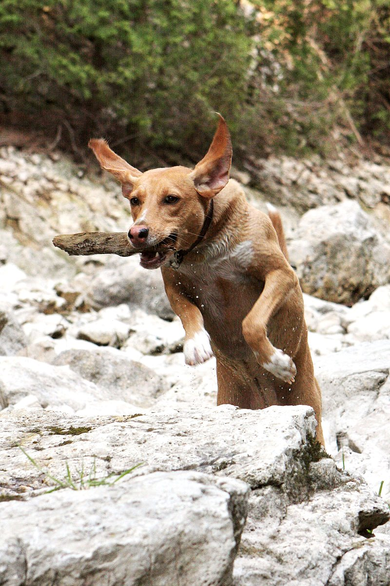 Jumping dog "Ryder"